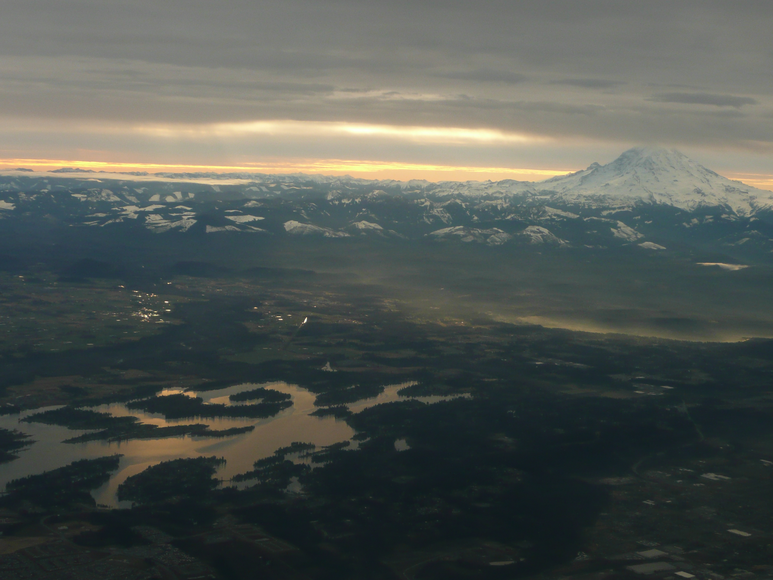 Lake Tapps ,Mount Rainier Washington